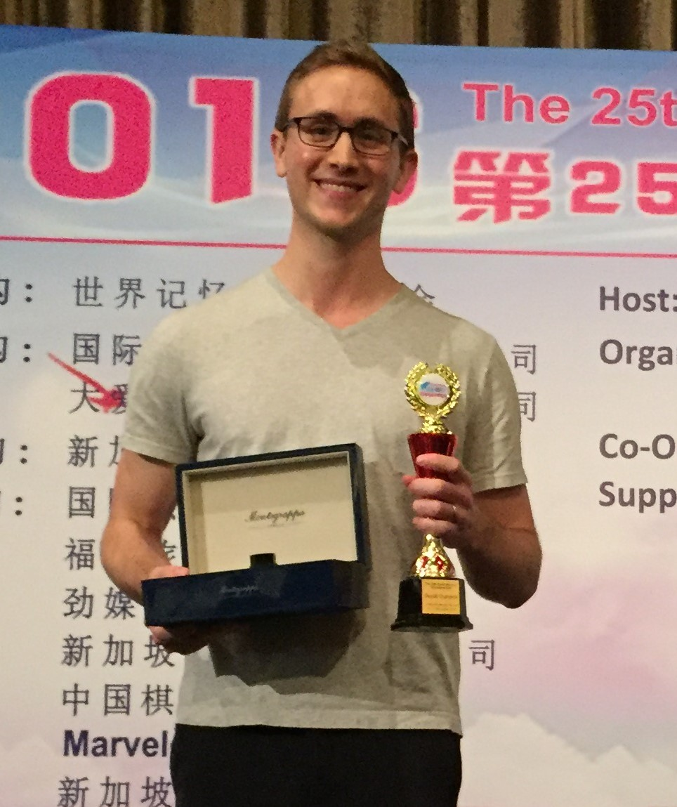 This is a photo of Alex Mullen, following his win at the 2016 World Memory Championship in Singapore.